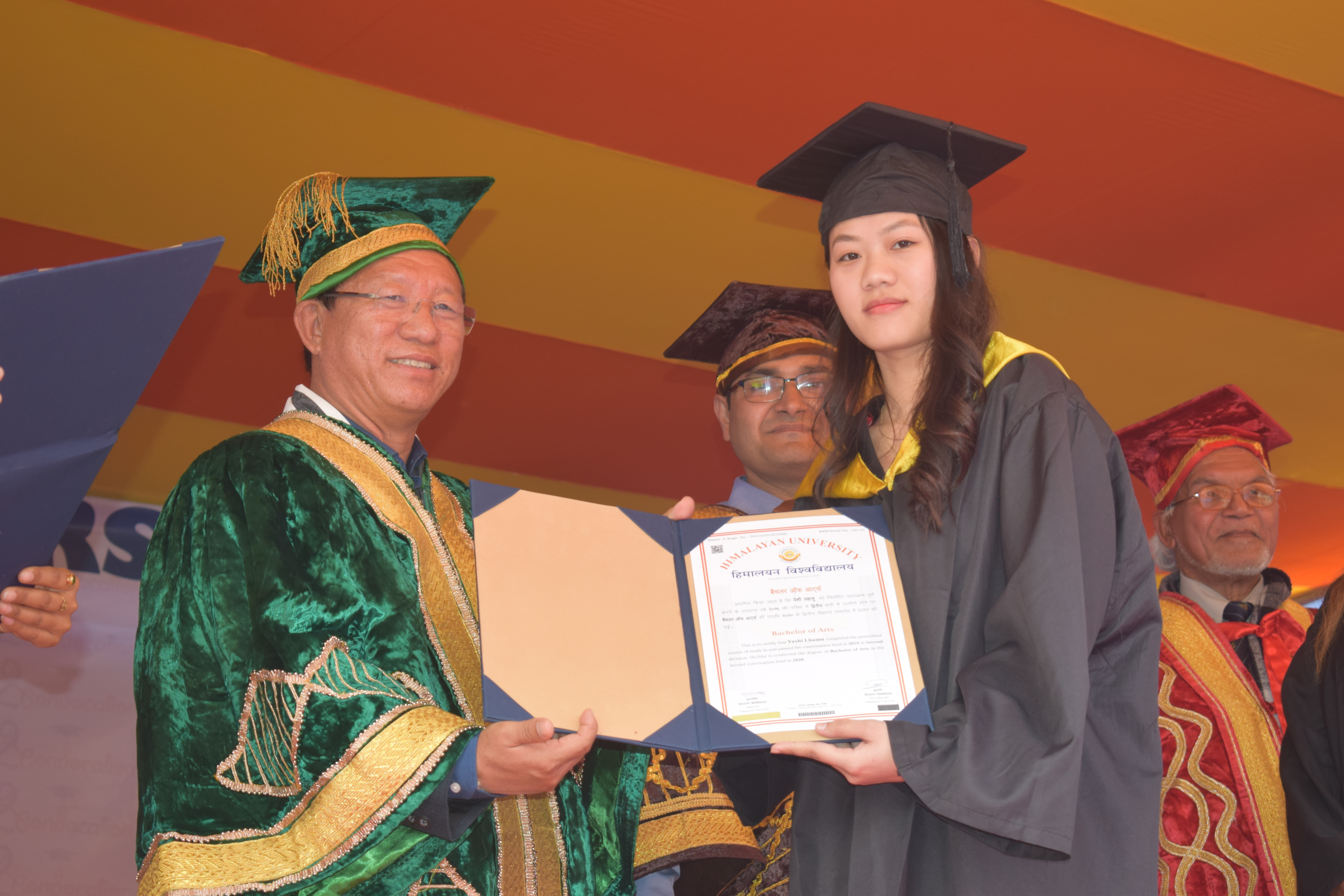 Himalayan University had conducted its 2nd Convocation on 21-Feb-2020 in its Jollang Campus Itanagar.